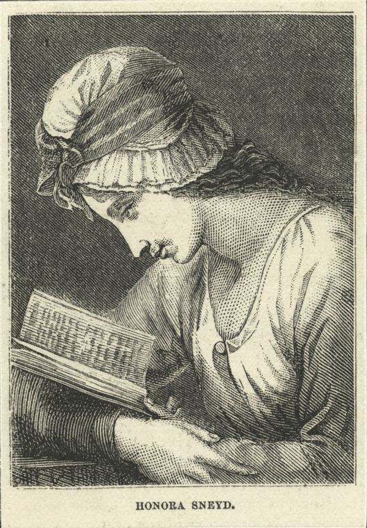 Wood engraving by Lossing, of Honora Sneyd Edgeworth. Based on original painting by George Romney